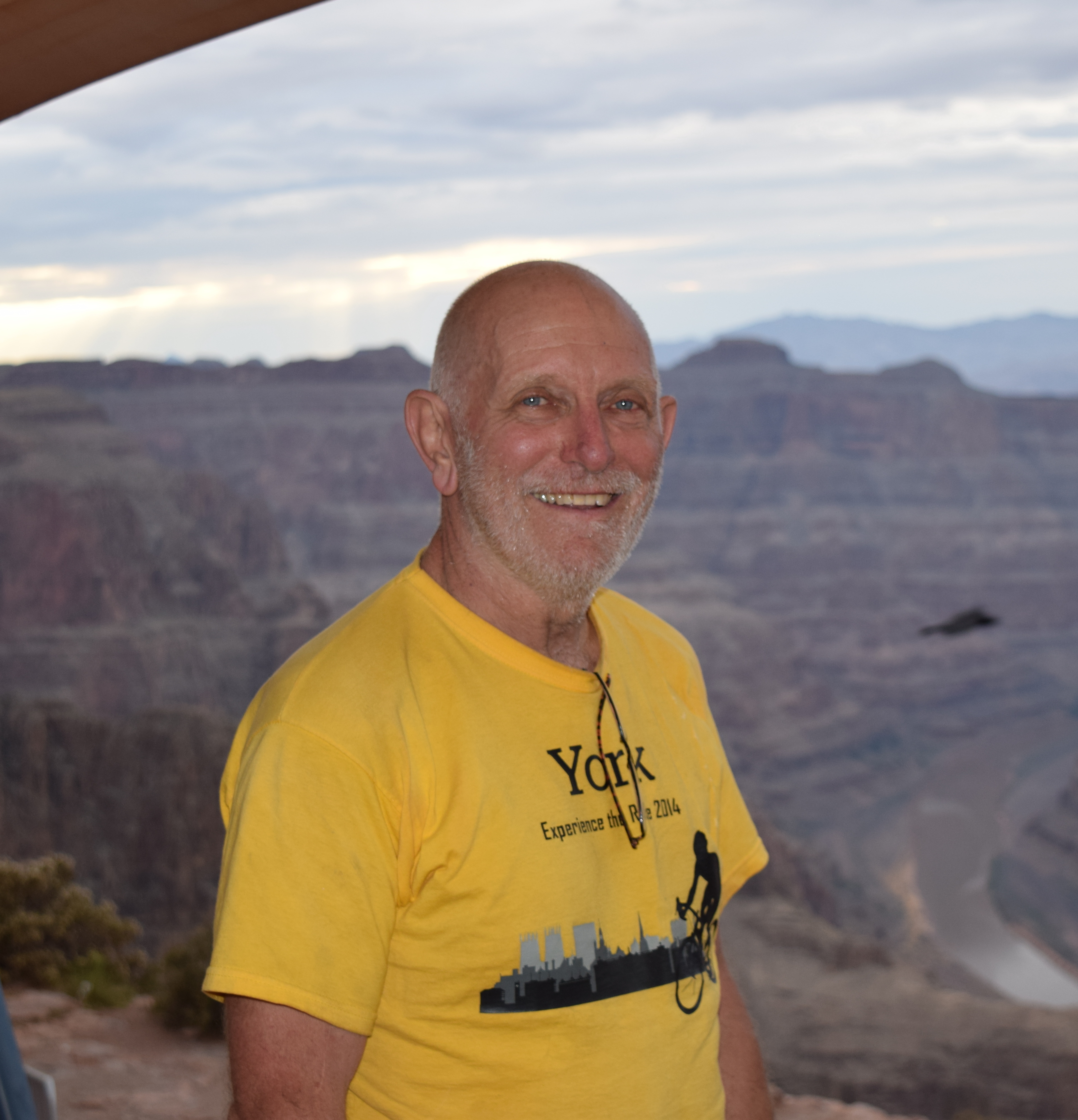 Taken at the Grand Canyon